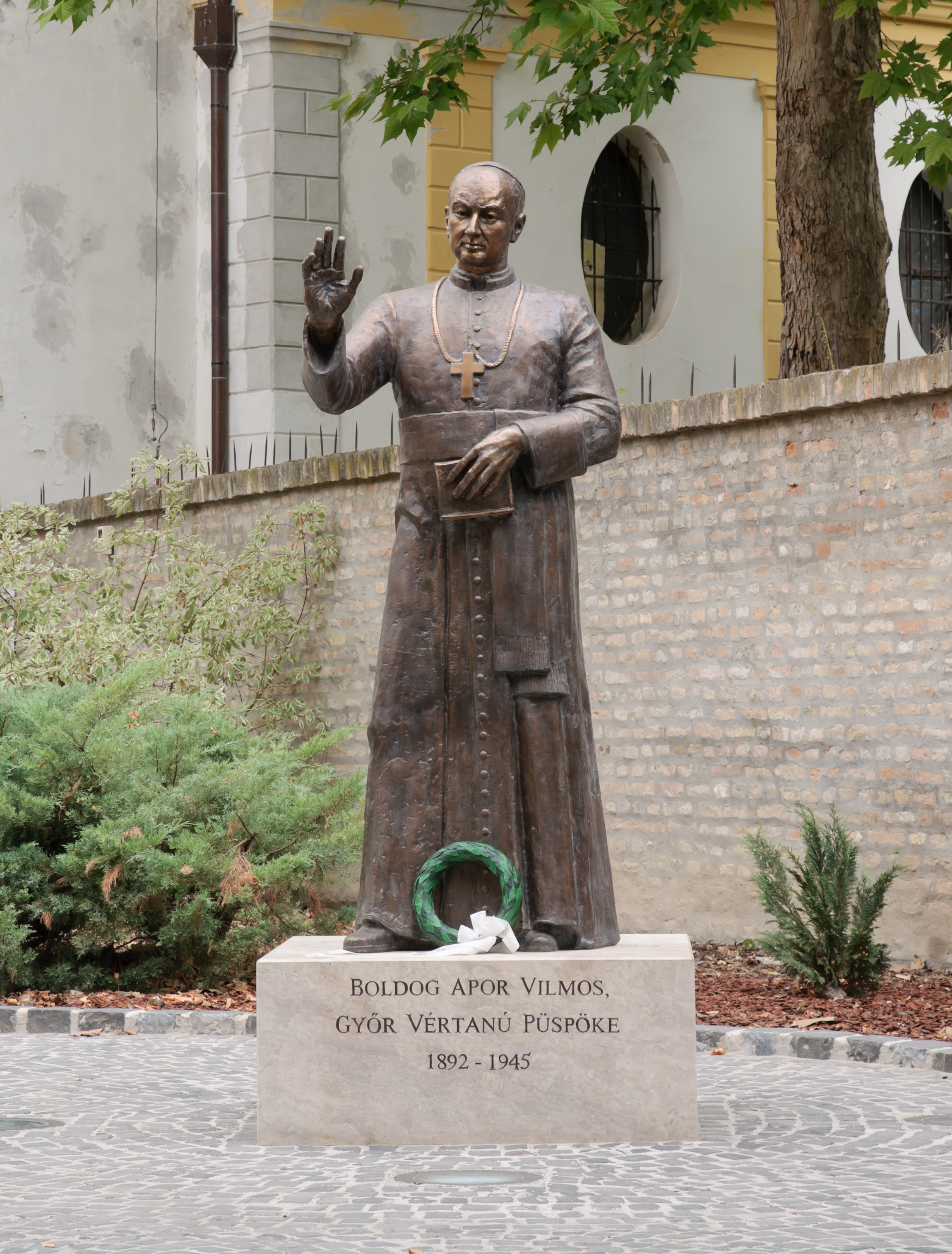 Monument of Vilmos Apor, Bishop of Győr, in the courtyard of Püspökvár, Győr, Hungary. Sculptor: Ferenc Lebó (*1960) in 2012